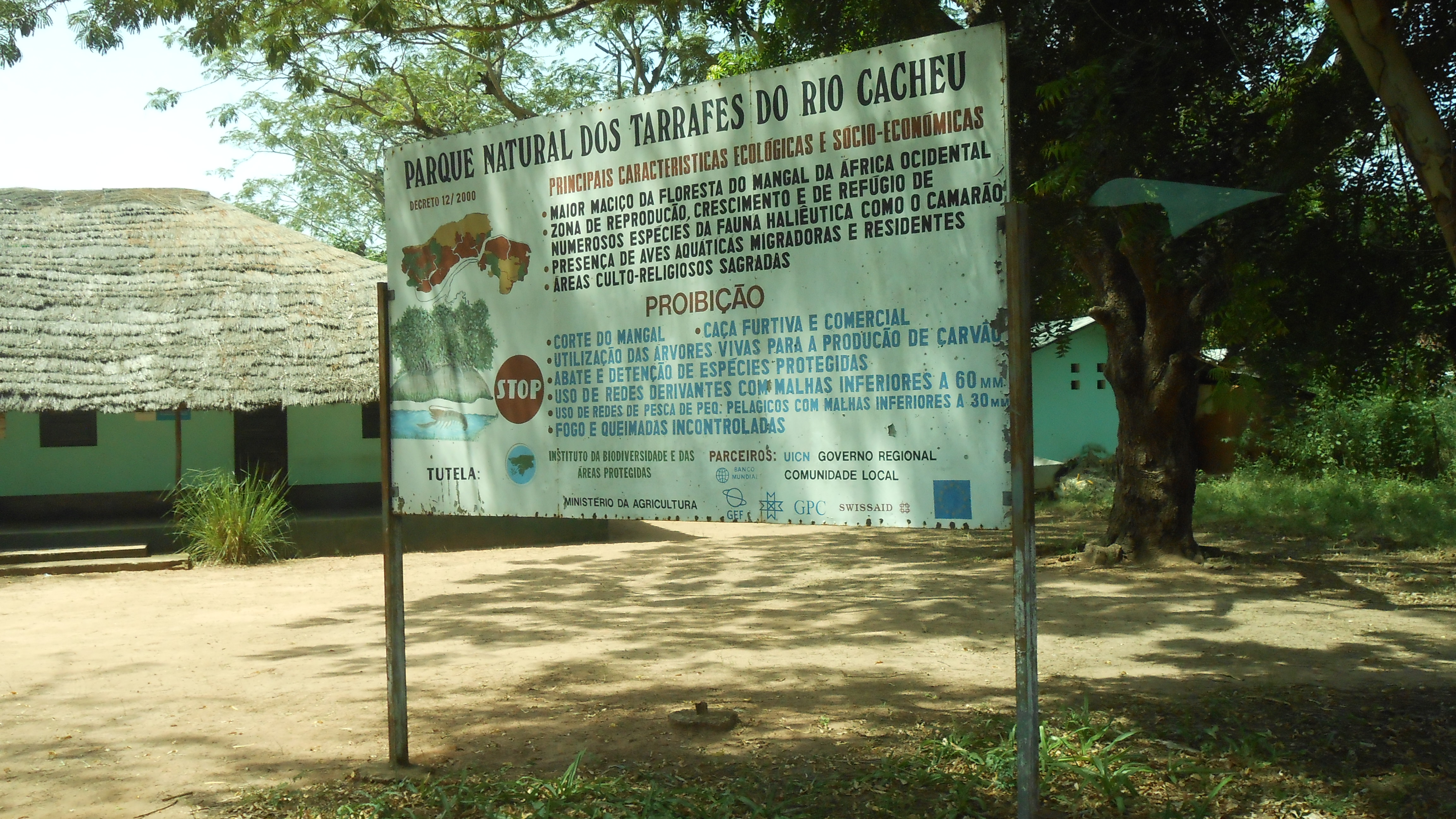 Information sign on one of the entrances to the nature reserve Parque Natural dos Tarrafes do Rio Cacheu in Guinea-Bissau.